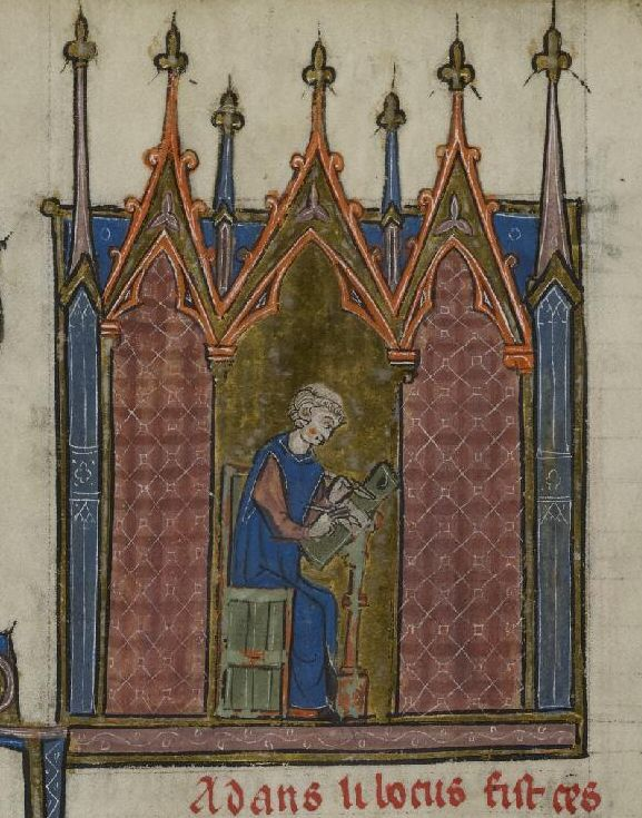 Adam de la Halle. Miniature in musical codex.